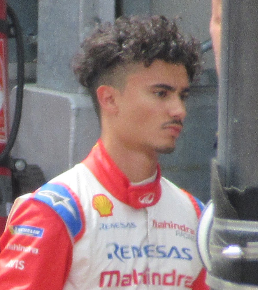 Pascal Wehrlein in 2019